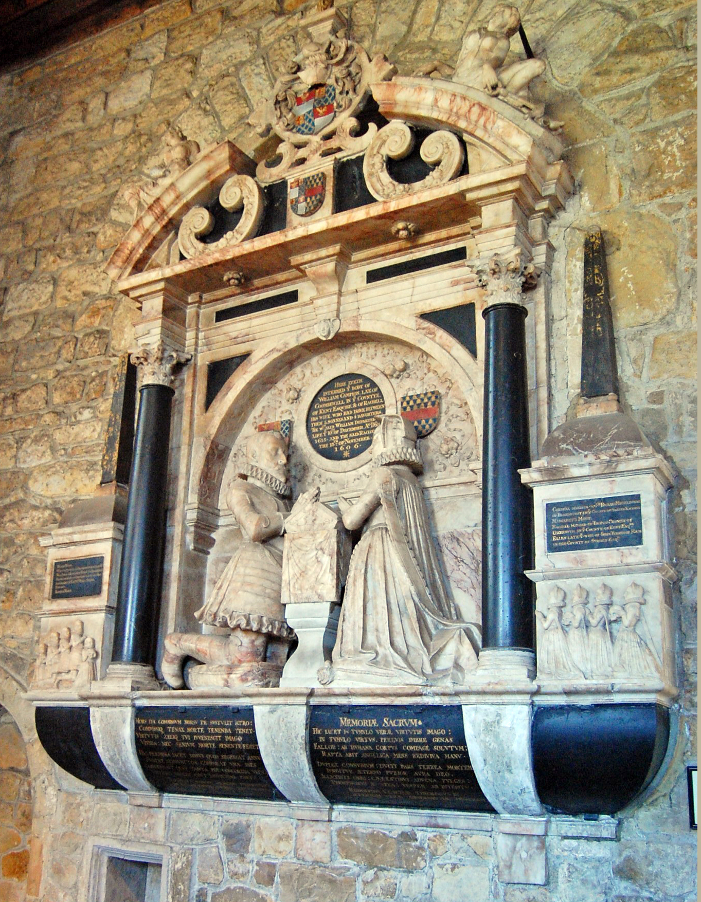 This fine memorial in Italian marble commemorates William Campion of Combwell Priory, and his wife Rachel. They had 5 sons and 4 daughters. He died December 1615, some years after Rachel.